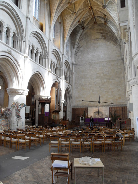 Malmesbury Abbey Beyond the present blank wall once stood the crossing and choir of the abbey